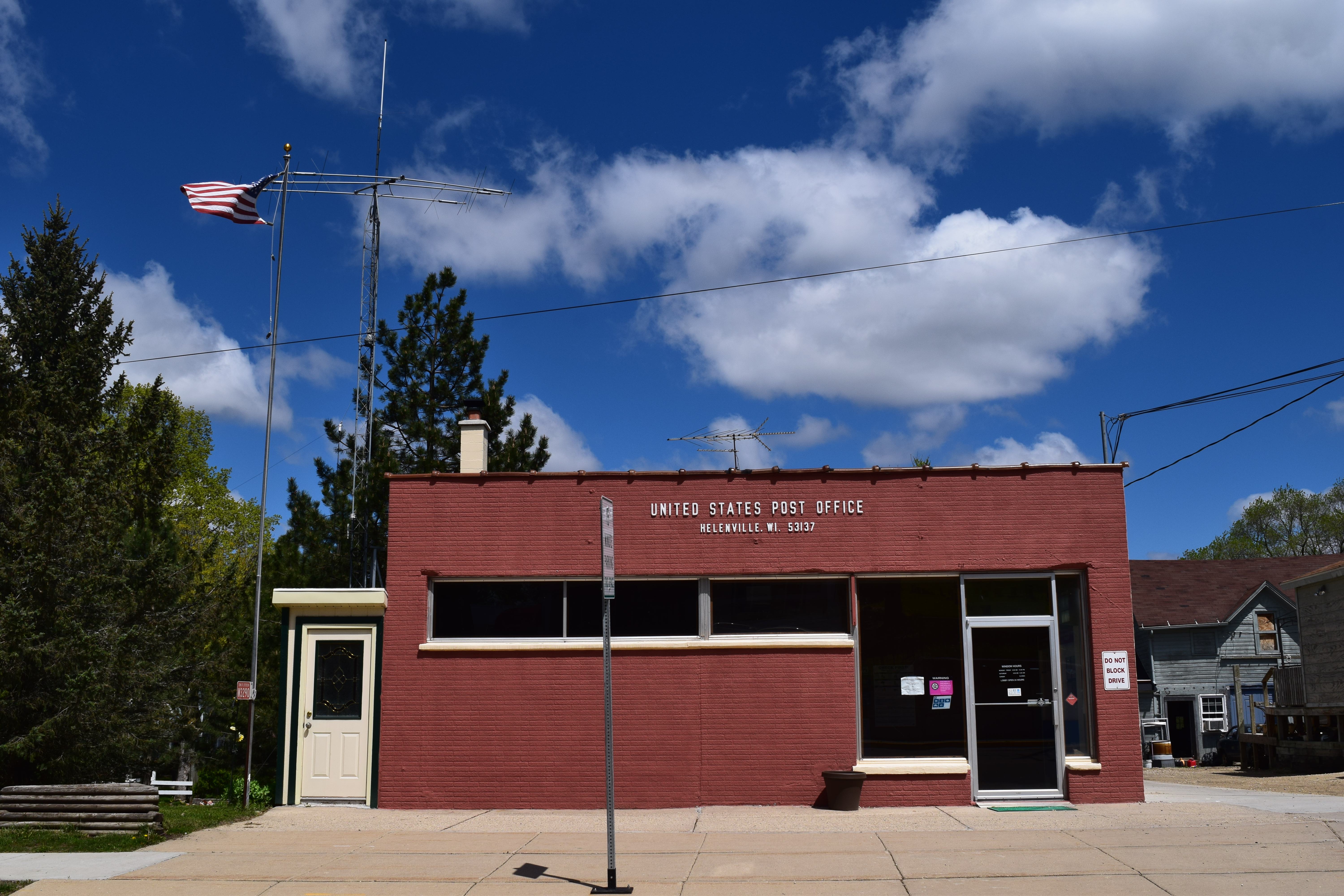 Post office in the community of Helenville, Wisconsin.